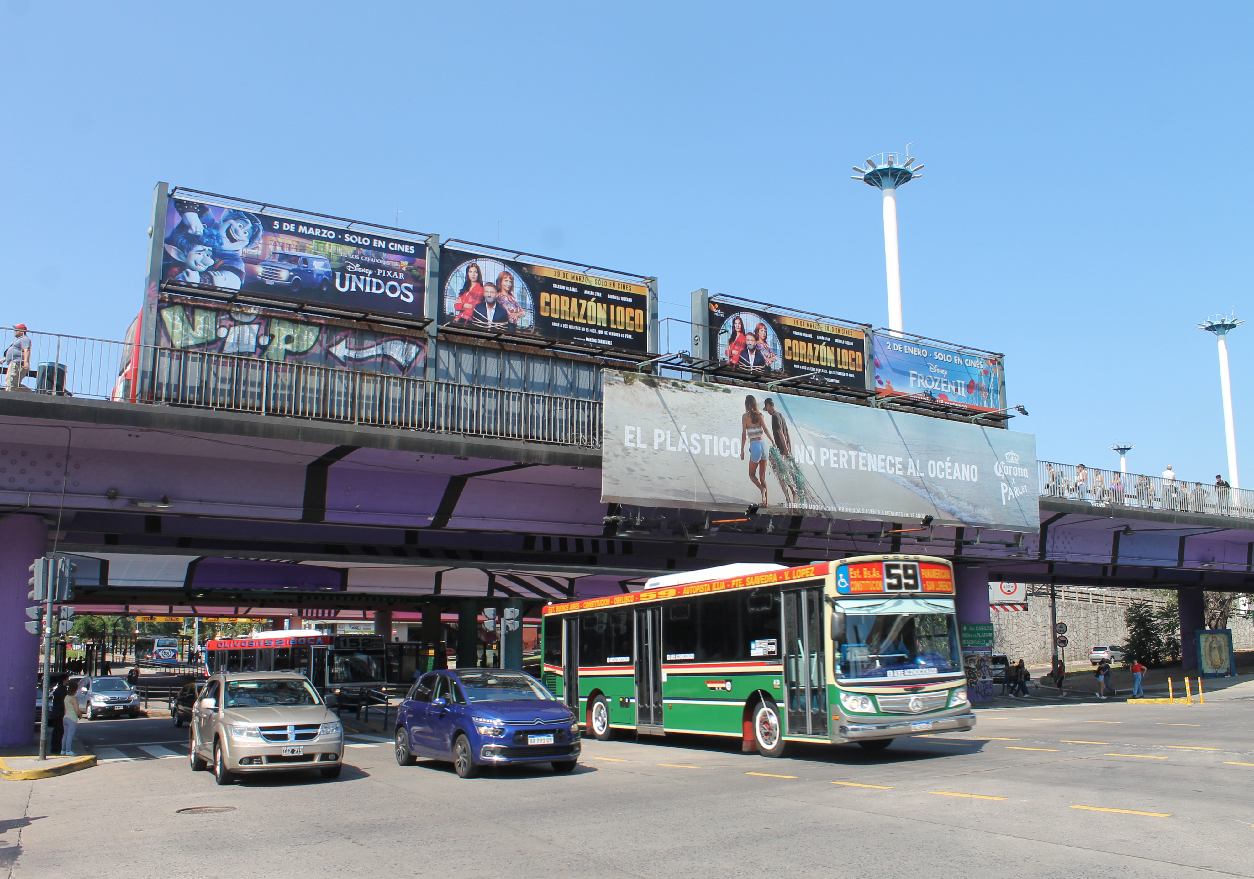 Puente Saavedra, Buenos Aires